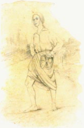 Stamata Revithi